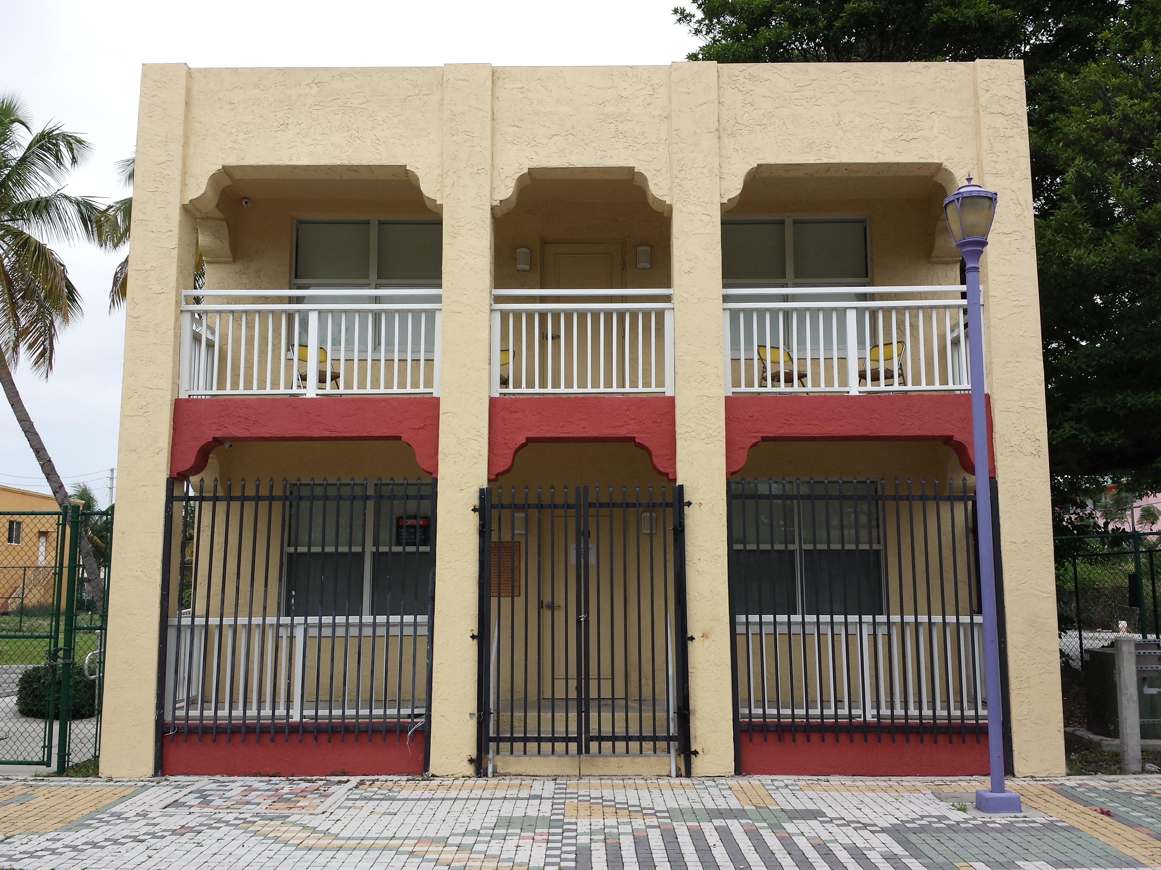 Overtown: Ward Rooming House, 249 NW 9th St, Miami, FL